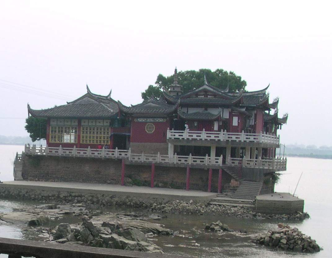 Fuzhou Jinshan Temple on the Min river side. Based on the photo Rog pics Fuzhou Oct 2007 Luo Yuan 121